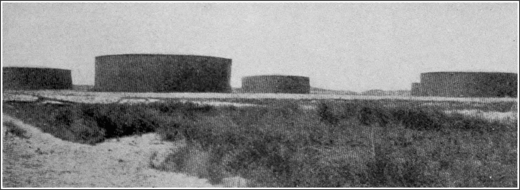 Storage tanks of 55,000 barrel of the Mexican Eagle Oil Company